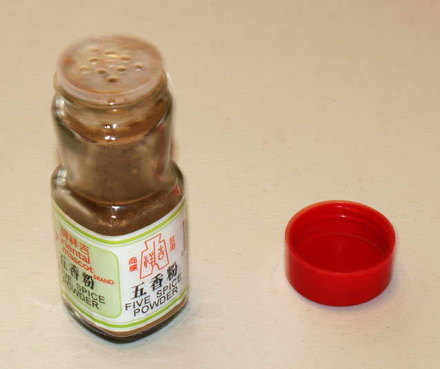 This is a picture of an opened bottle of Oriental Mascot brand 5 spice powder